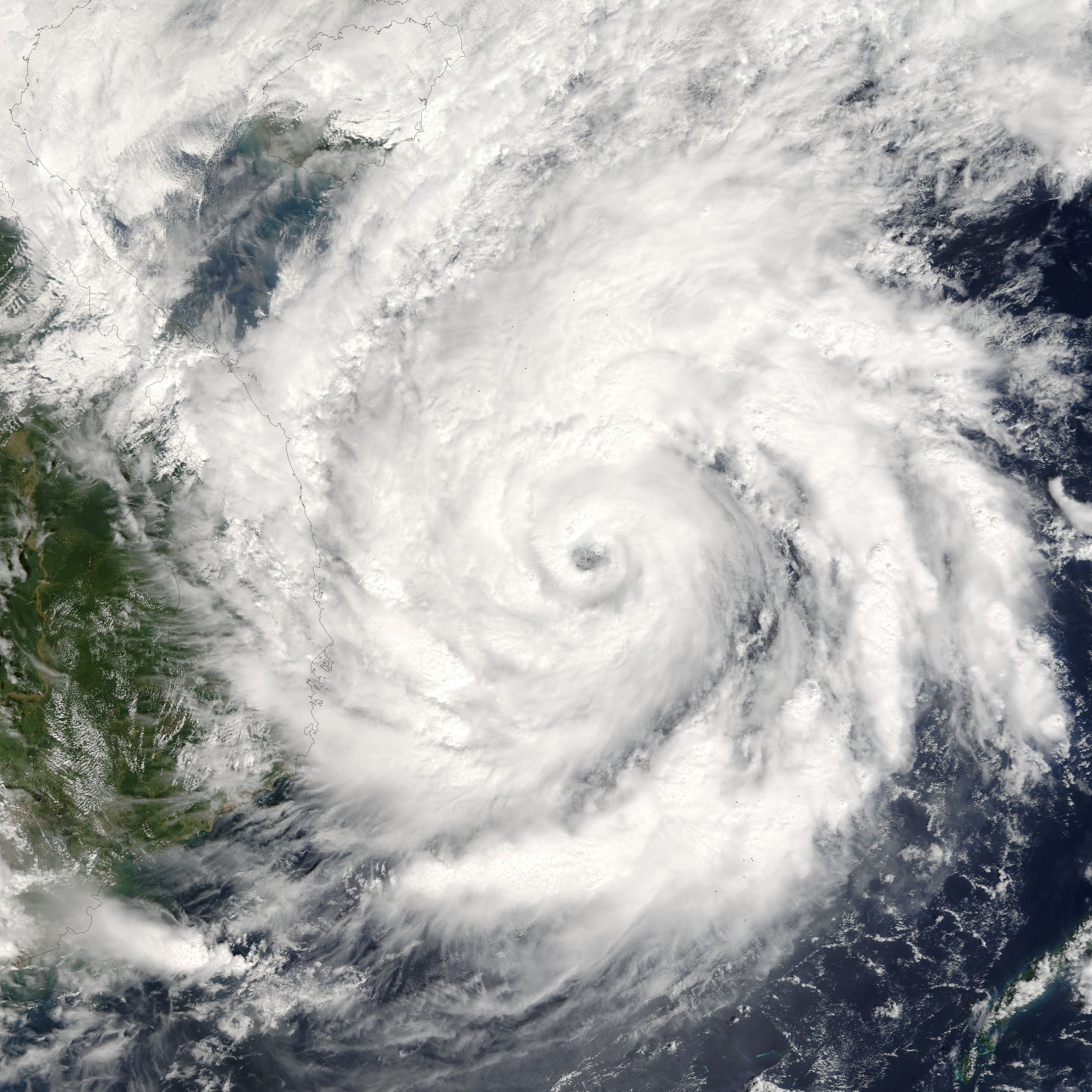 Typhoon Kai-Tak was a powerful typhoon when it was observed by the Moderate Resolution Imaging Spectroradiometer (MODIS) on the Terra satellite at 10:10 a.m. local time on October 30, 2005. At that time, Typhoon Kai-Tak had sustained winds of 140 kilometers per hour (85 miles per hour), and the storm continued to gather strength as it moved northeastward toward a projected landfall on the northern Vietnamese coast. The large image provided above has a resolution of 250 meters per pixel. It is available in additional resolutions from the MODIS Rapid Response Team.